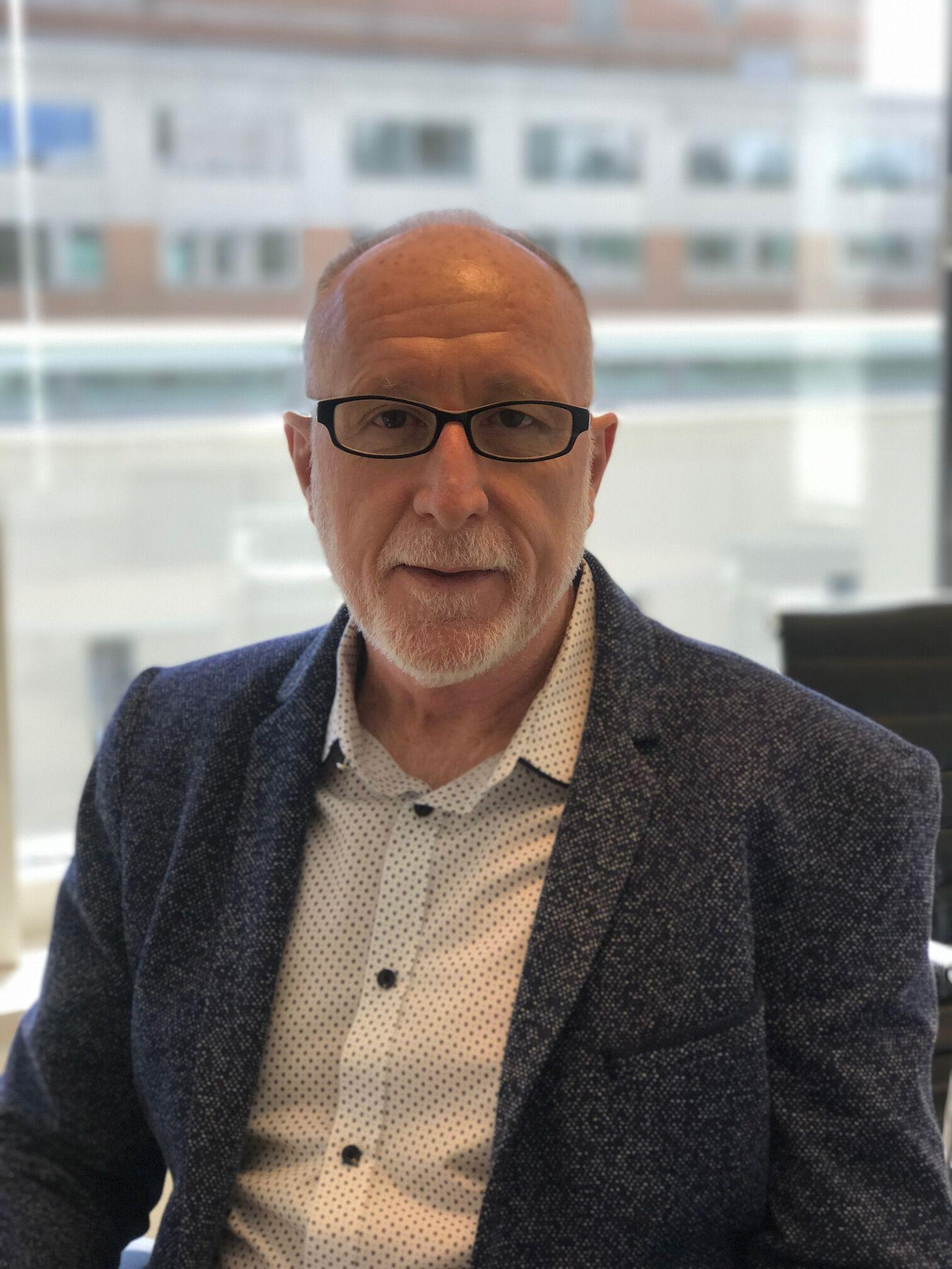 A photograph of Greg Neimeyer